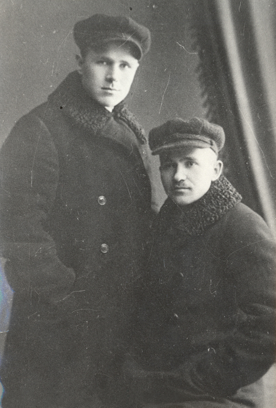 Photo of Harecki brothers. From left to right: Haŭryła Harecki was a Belarusian geologist, geographer, economist; one of the founders and an academic of National Academy of Sciences of Belarus (1946) Maksim Haretski was a Belarusian prose writer, literary critic, lexicographer, folklorist; one of the prominent figure of Belarusian national revival in 20th century Беларуская (тарашкевіца): Фатаздымак братоў Гарэцкіх. Зьлева направа: Гаўрыла Гарэцкі — беларускі геоляг, географ, эканаміст, адзін з заснавальнікаў і акадэмік (1928) Беларускай акадэміі навук. Доктар геоляга-мінэралягічных навук (1946), заслужаны дзеяч навукі Беларусі. Максім Гарэцкі — беларускі празаік, дзеяч беларускага нацыянальна-дэмакратычнага адраджэньня XX ст., літаратуразнаўца, лексыкограф, фальклярыст, прафэсар.